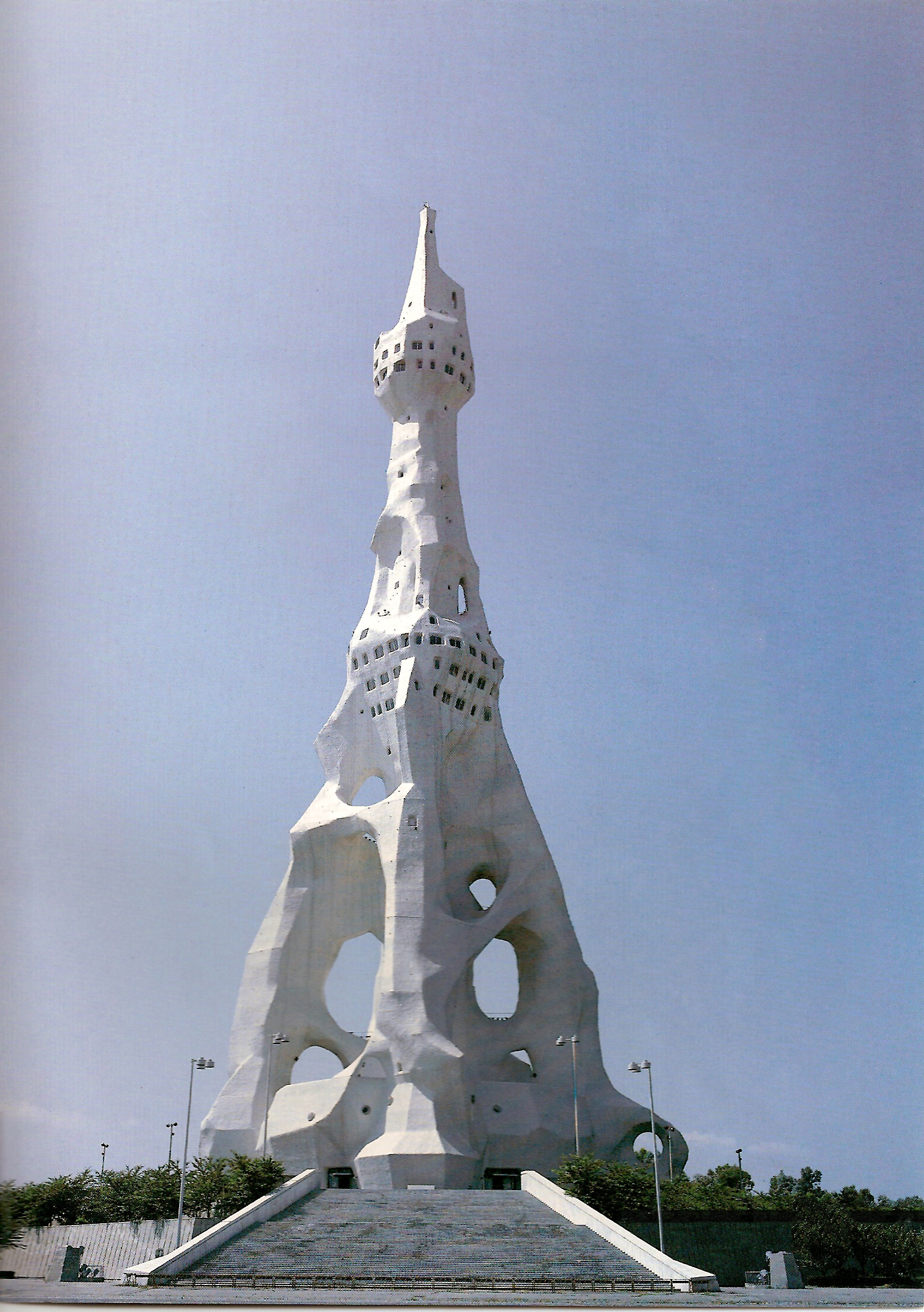 The Great Peace Prayer Tower, religious building of the Perfect Liberty Church.